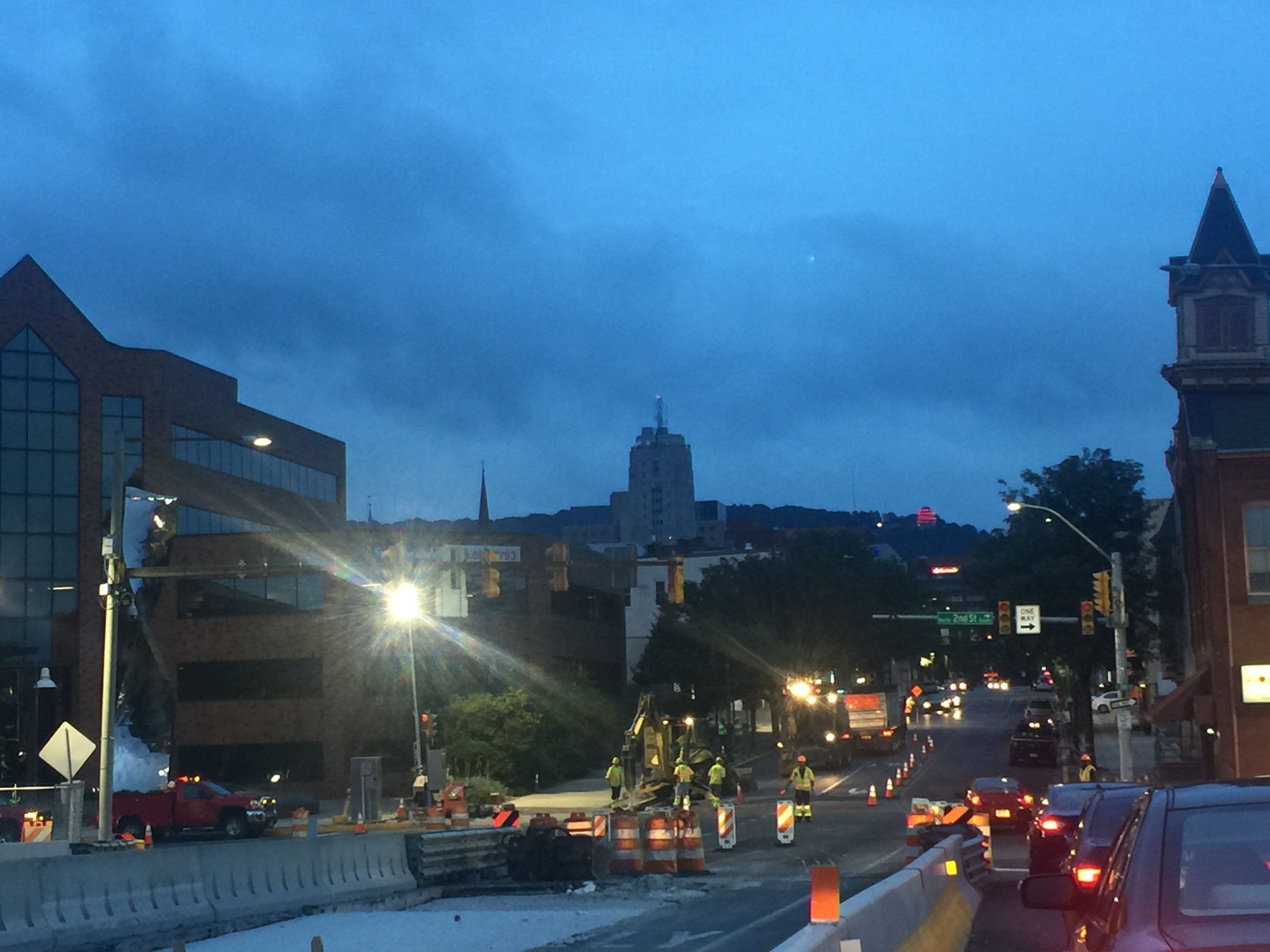 Reading downtown at night